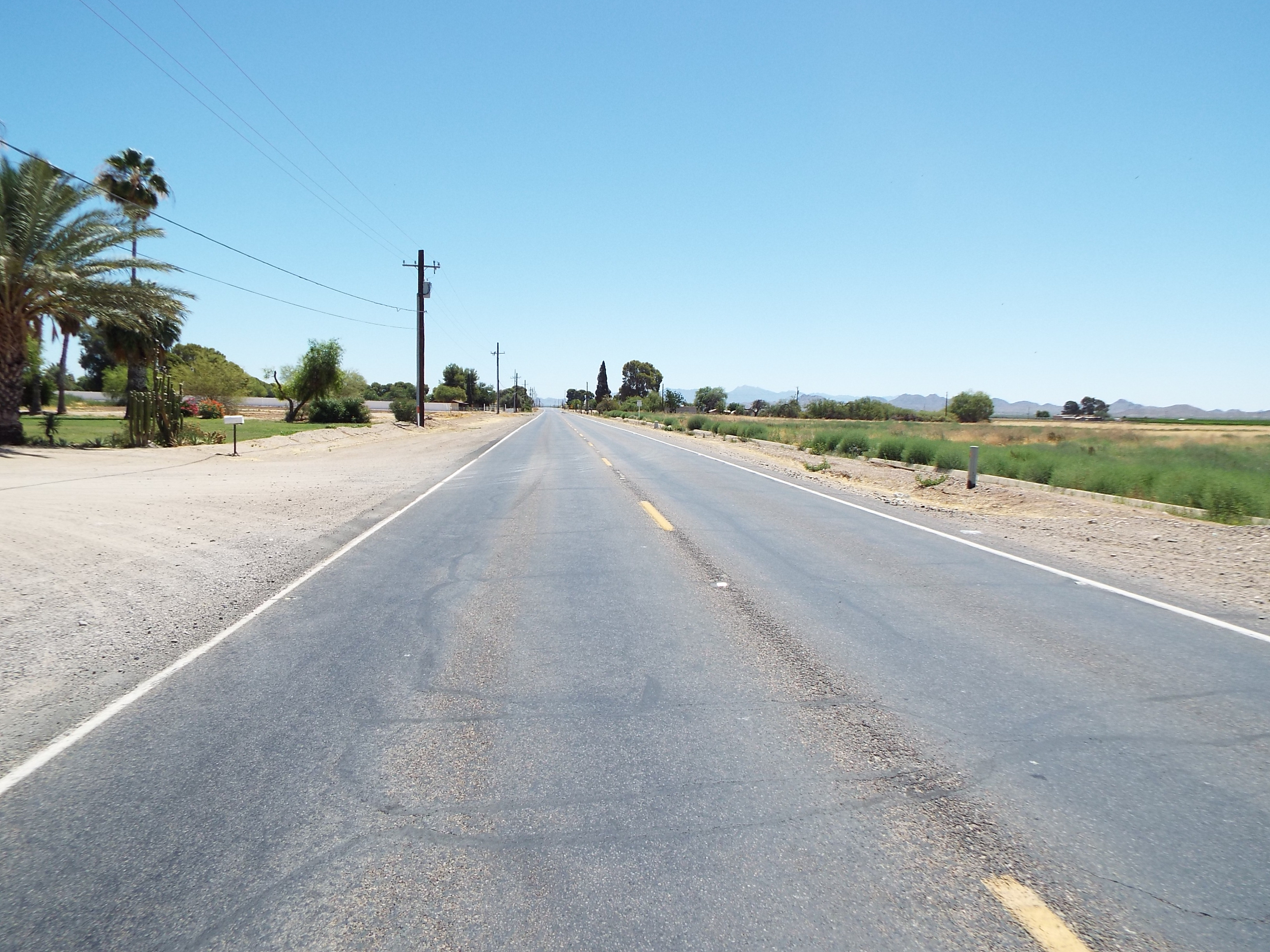 Old Highway 80 street in Buckeye, Arizona.